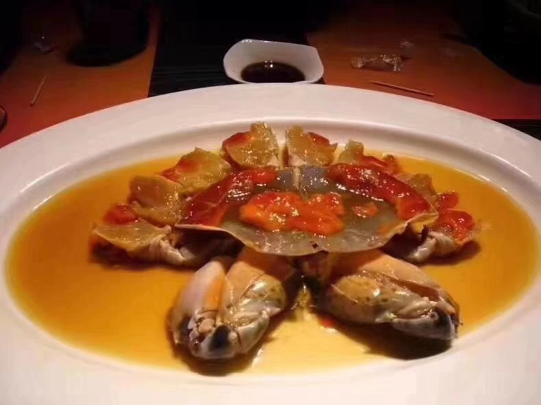 Exquisite drunken crabs